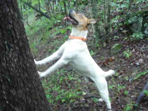 Example of a BUCKLEY MOUNTAIN FEIST